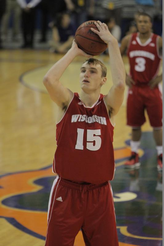 Sam Dekker in 2012 against the Florida Gators